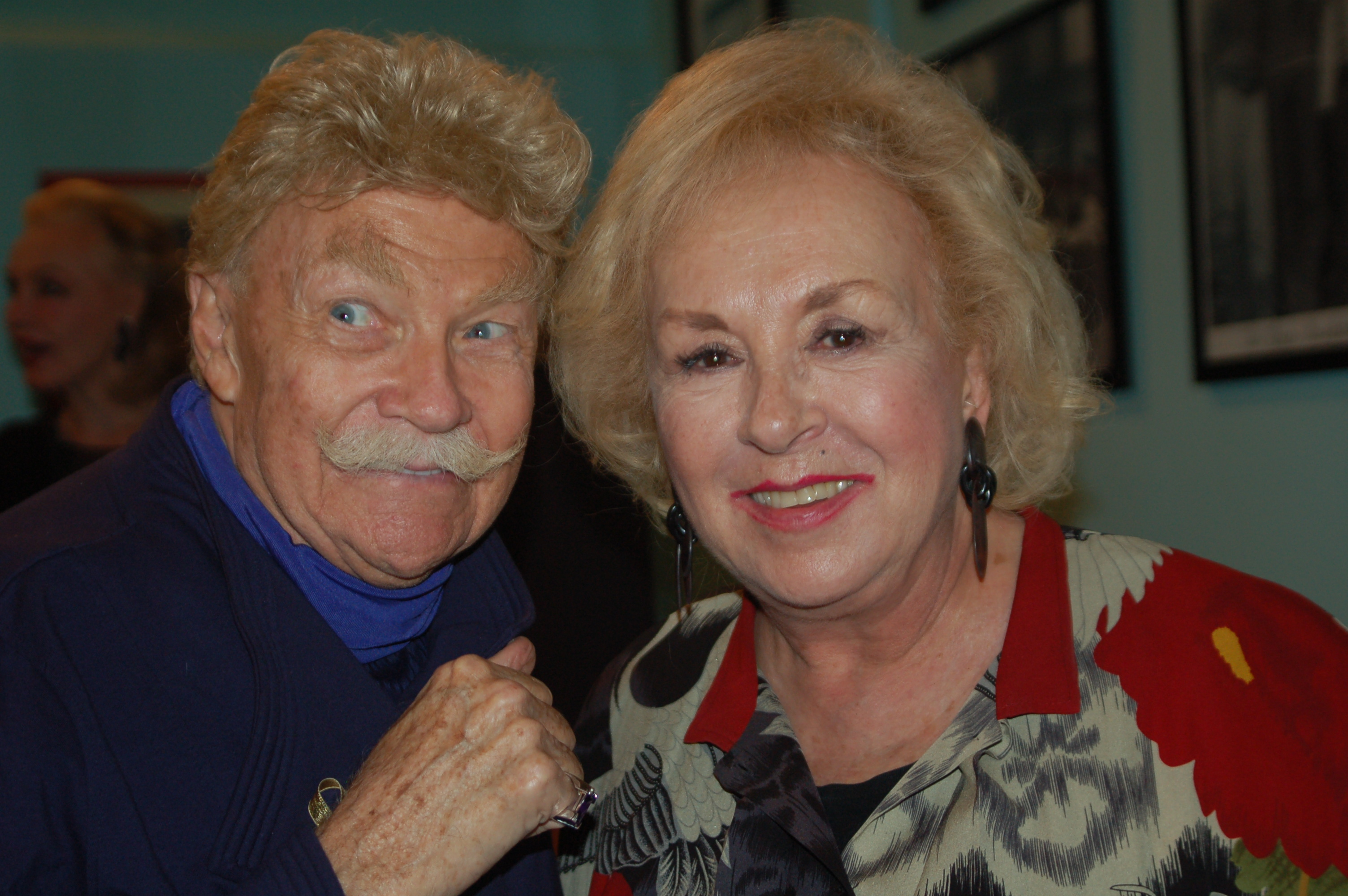 Rip Taylor and Doris Roberts in the Green Room at the Marilyn Monroe Theatre after a performance of Barrymore.